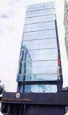 Embassy of Peru in Ecuador